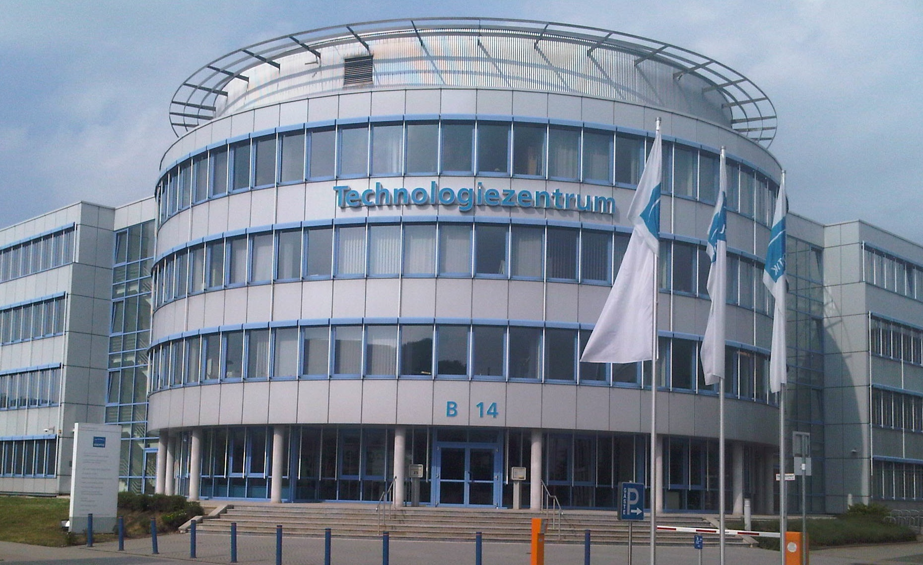 Jenoptik building 14 in Jena Göschwitz